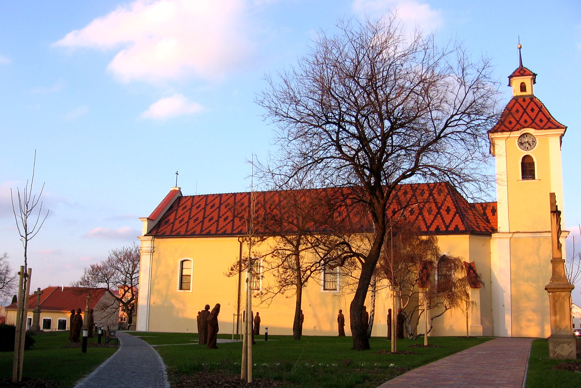 Kostel sv. Peta a Pavla v Kunovicích, okres Uherské Hradiště.